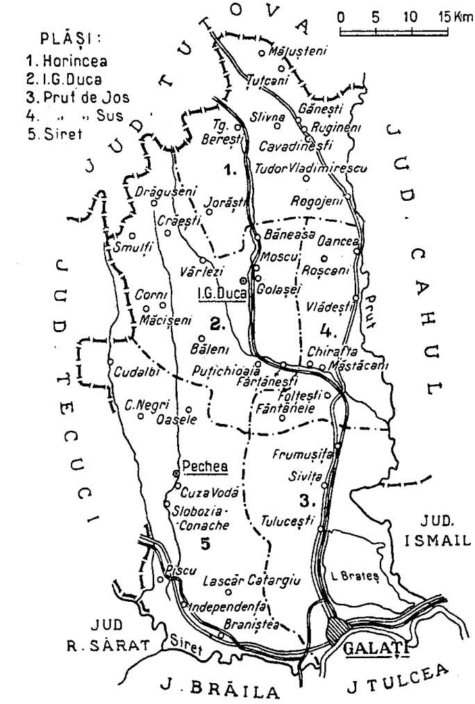 Map of Covurlui interwar county, Kingdom of Romania (1938).